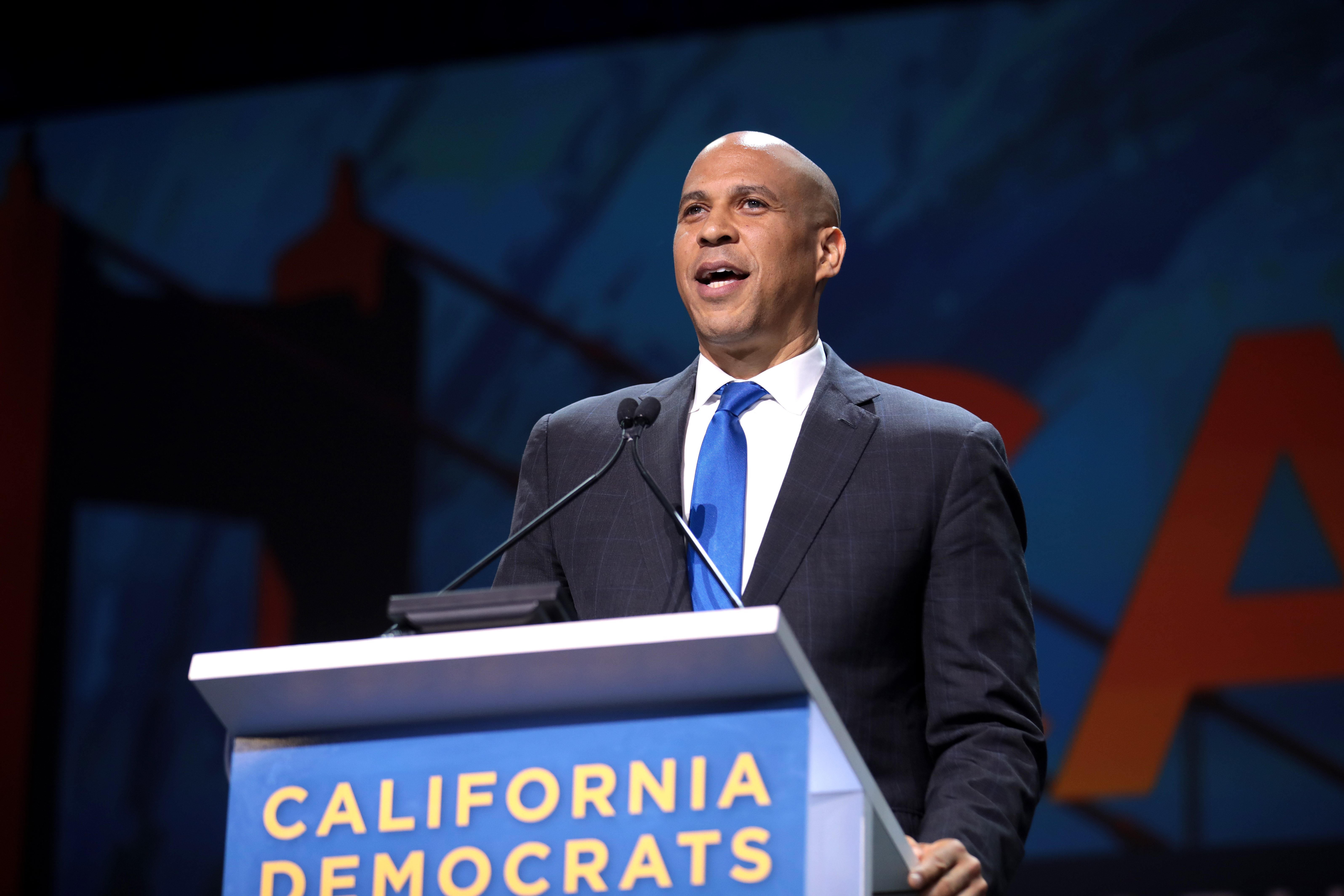 U.S. Senator Cory Booker speaking with attendees at the 2019 California Democratic Party State Convention at the George R. Moscone Convention Center in San Francisco, California.